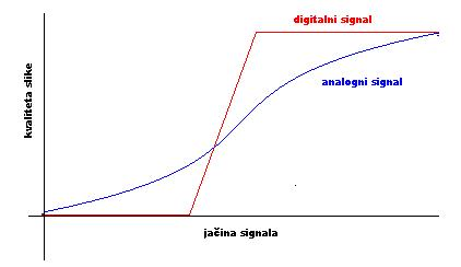 DTV Cliff efect